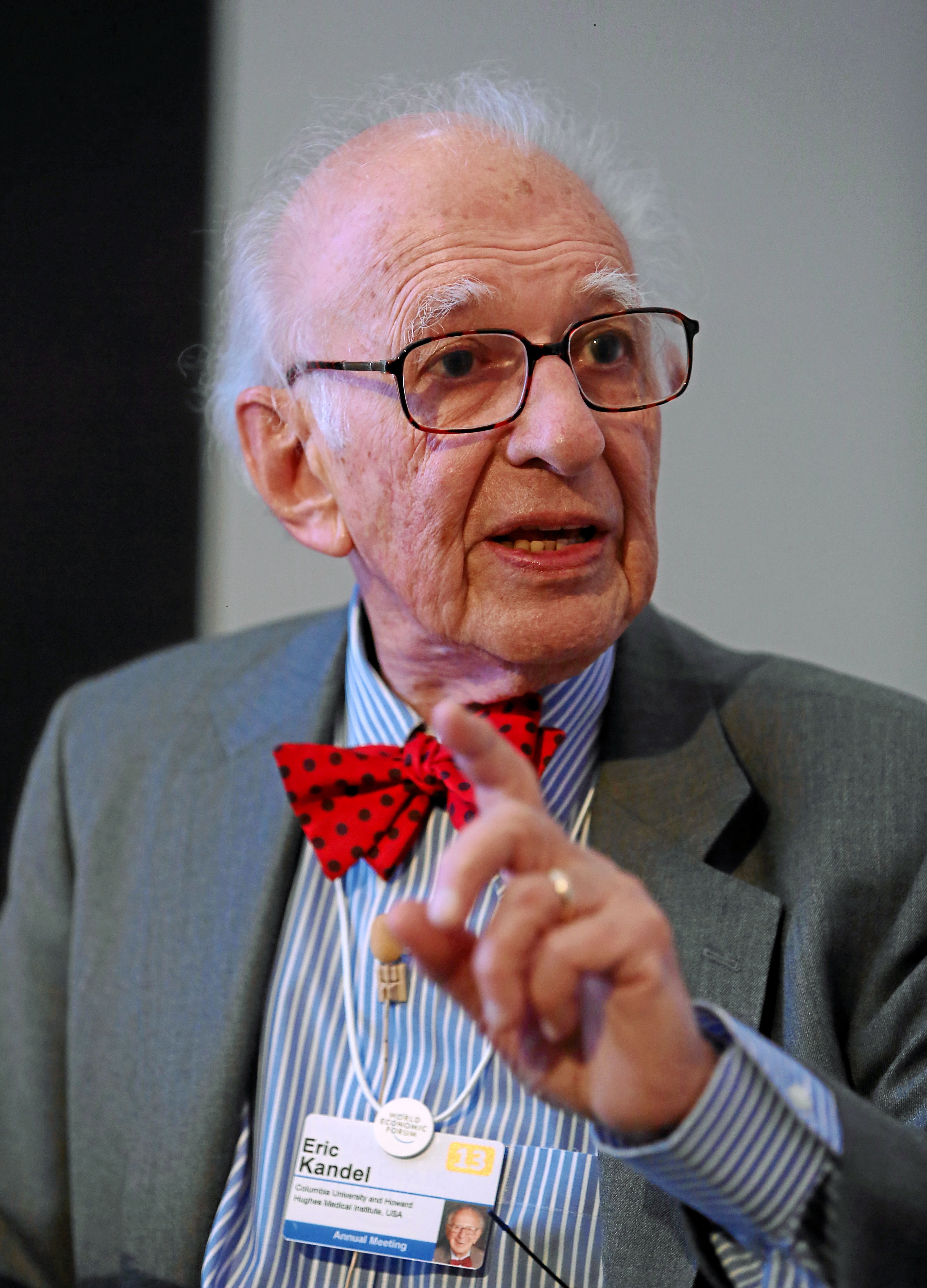 DAVOS/SWITZERLAND, 25JAN13 - Eric Kandel, Professor, Columbia University, USA explains the physiological basis of memory during the session 'In Search of Memory' at the Annual Meeting 2013 of the World Economic Forum in Davos, Switzerland, January 25, 2013. . . Copyright by World Economic Forum. . Monika Flueckiger